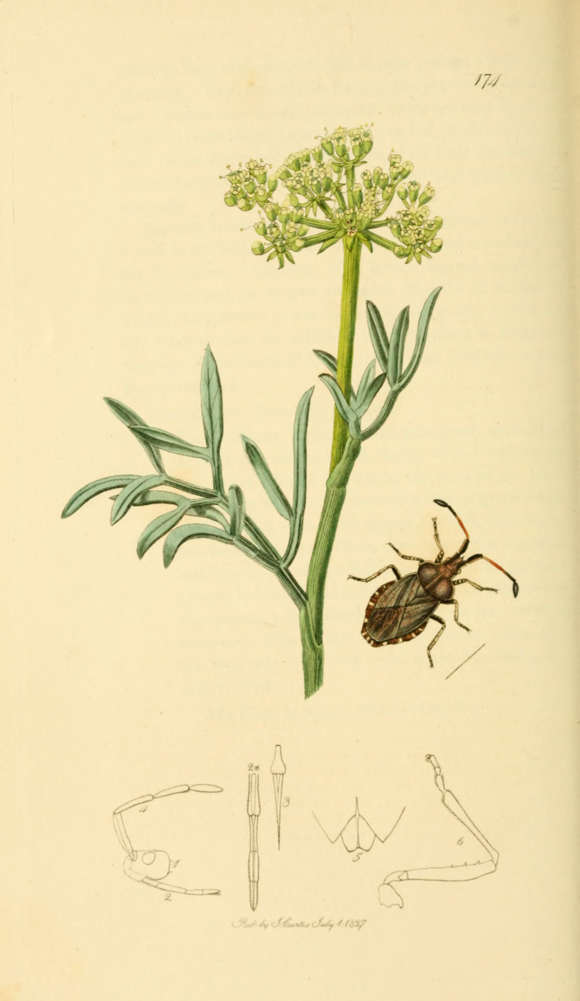 John Curtis British Entomology (1824-1840) Folio 174 Coreus scapha synonym of Enoplops scapha (the Sea-side Coreus).The plant is Crithmum maritimum (Rock Samphire)